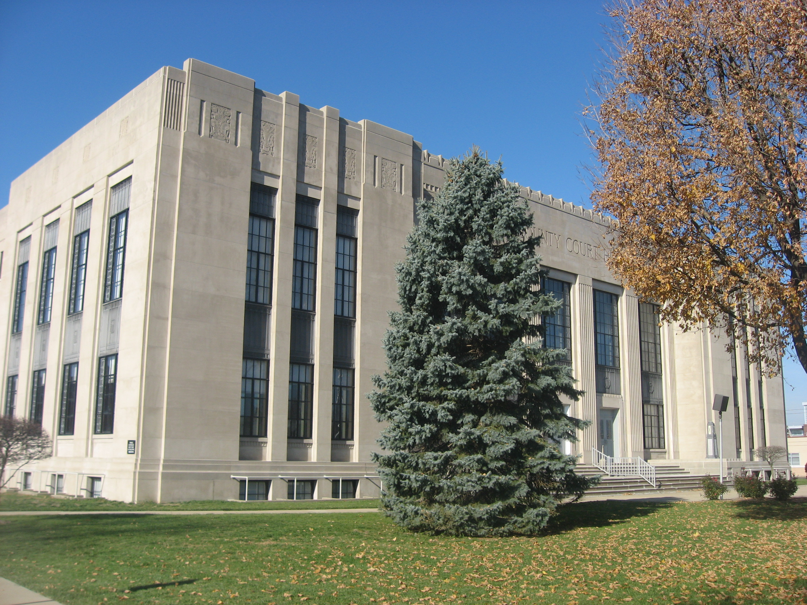 Front of the Shelby County Courthouse, located at 407 S. Harrison Street (State Roads 9/44) in Shelbyville, Indiana, United States. Built in 1937, it is listed on the National Register of Historic Places.